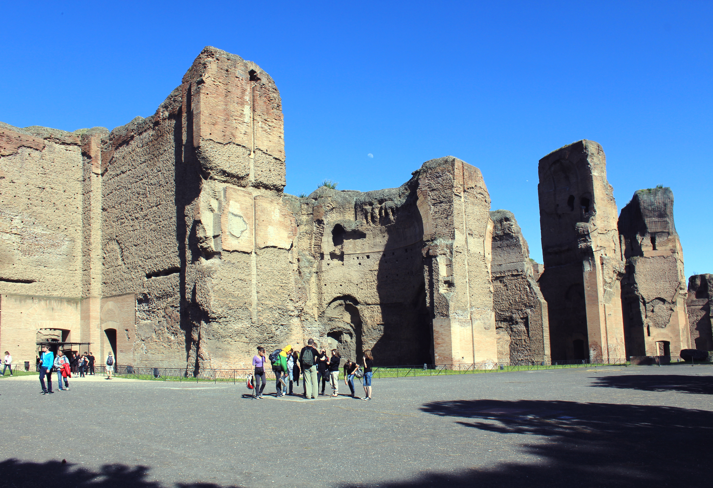 Ruins of the Baths of Caracalla, Rome, Italy